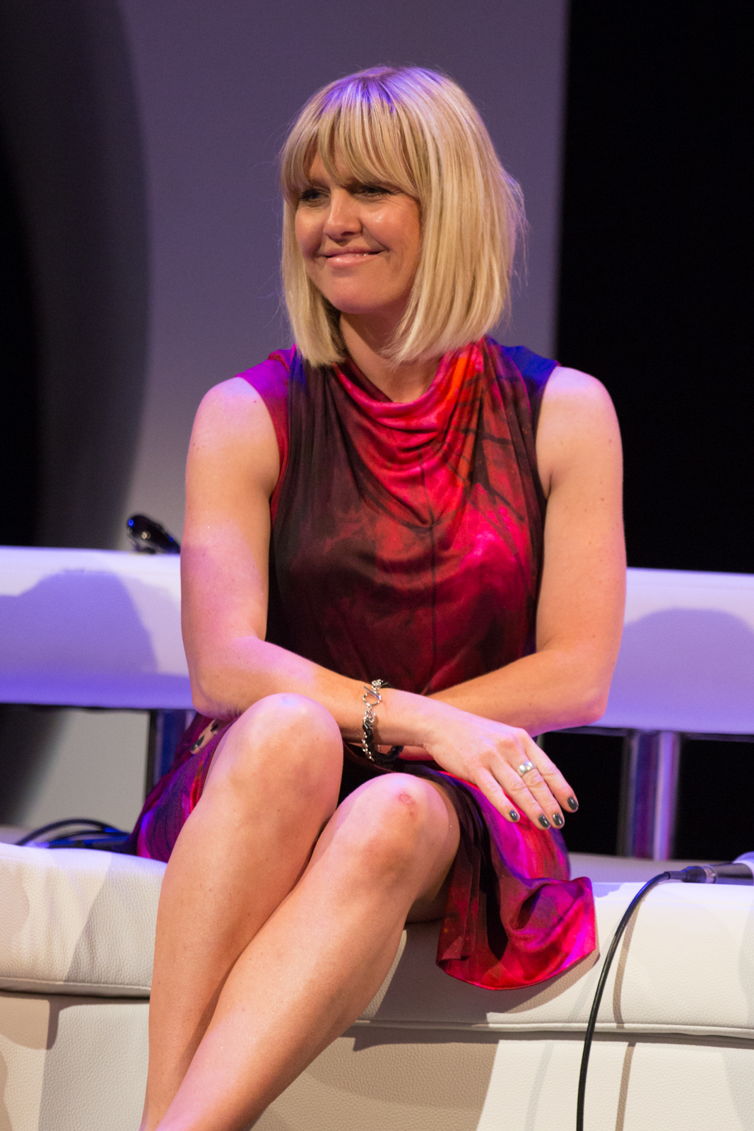 Ashley Jensen at the ATX Television Festival: Season 5 in June 2016.